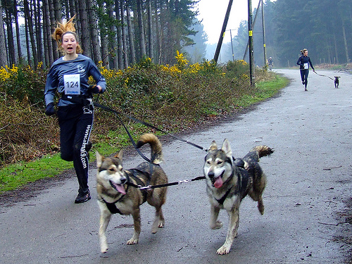 This picture was taken at Cannock Chase, Staffordshire. A cani cross event organised by Cani X